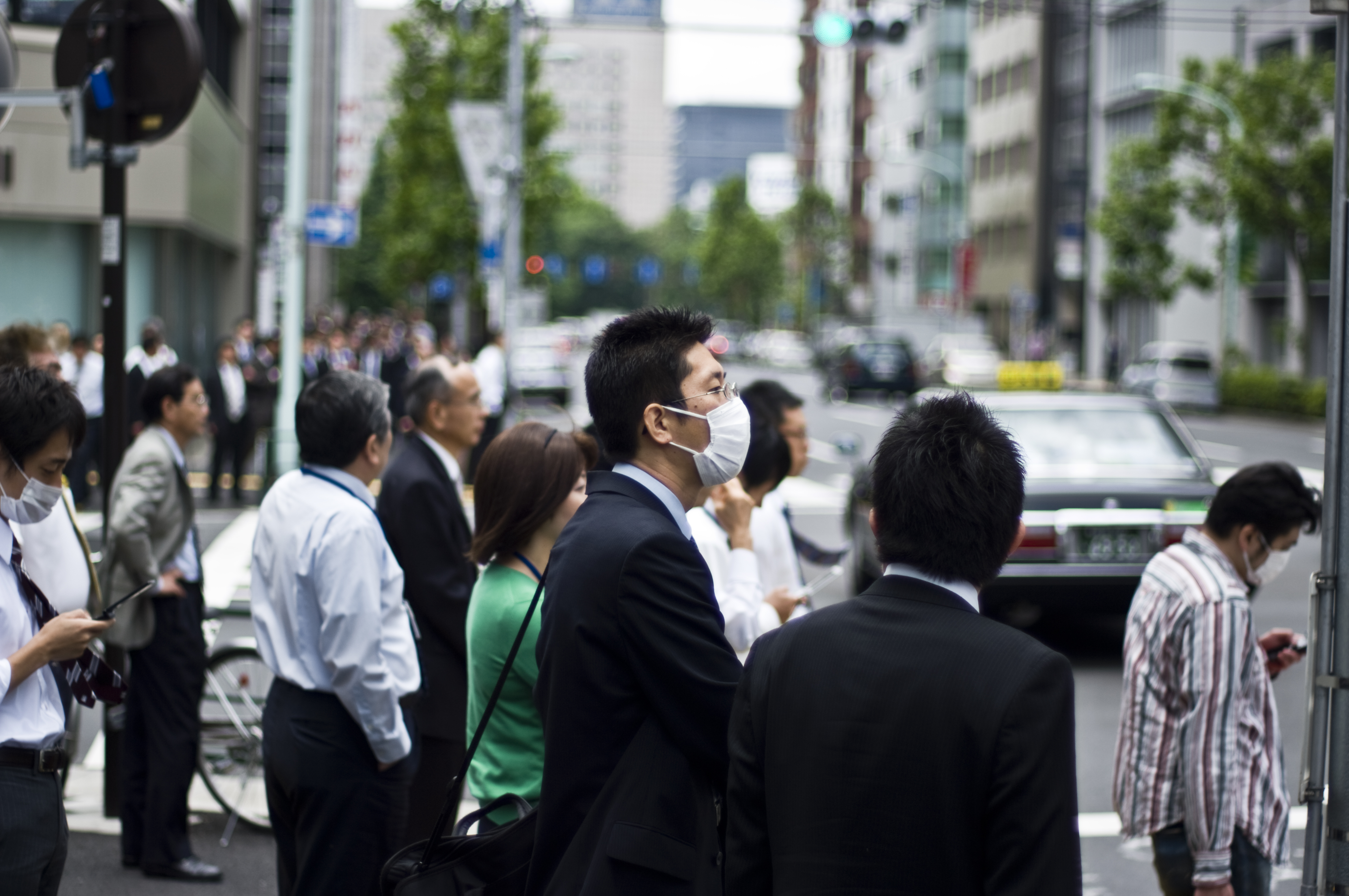 This photo was taken on May 22, 2009 using a Pentax K20D.